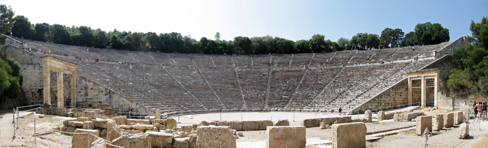 Greek Theatre Epidaurus